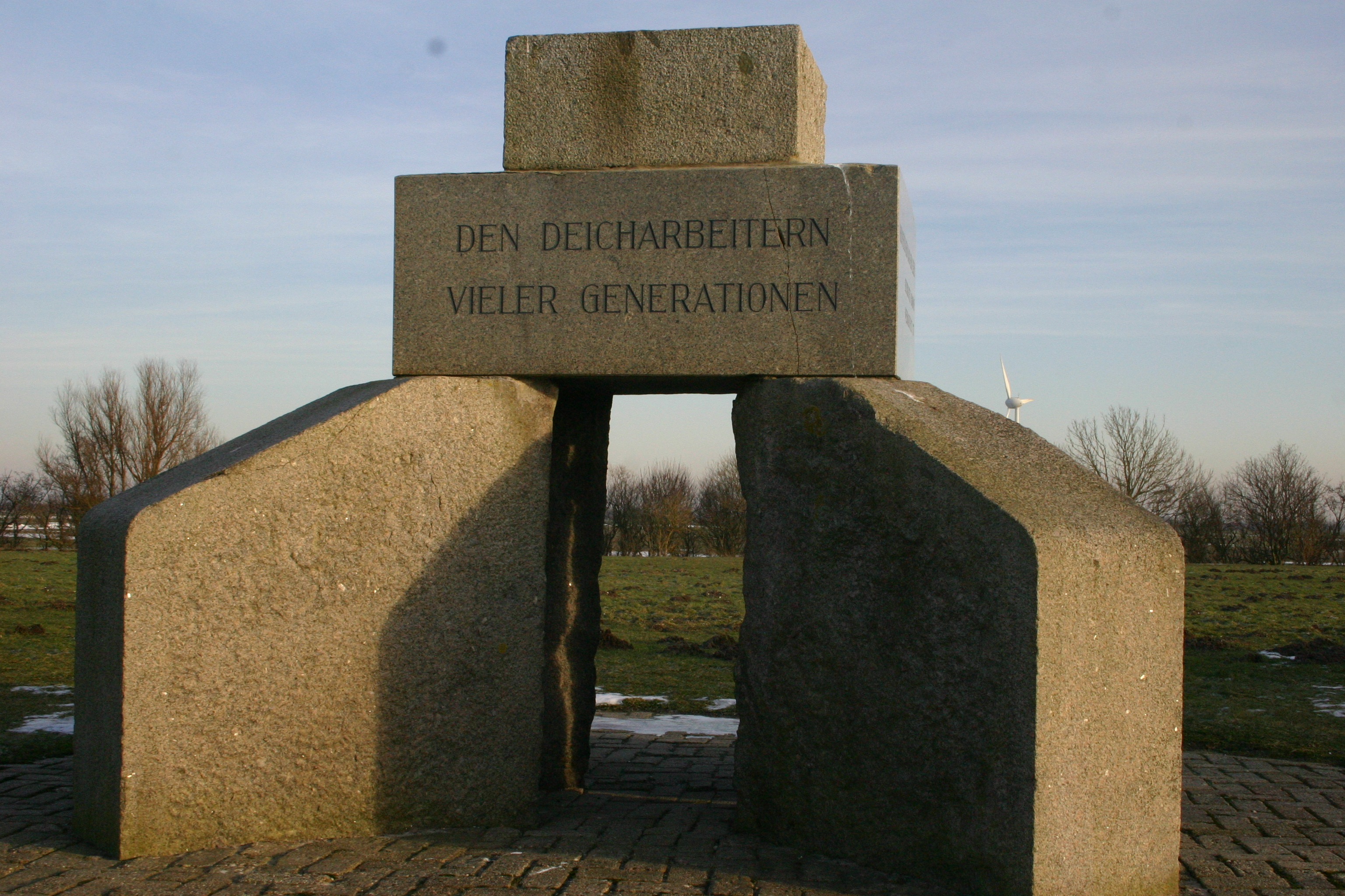 Monument commemorating the dyke workers in Pilsum, community of Krummhoern, district of Aurich, Germany